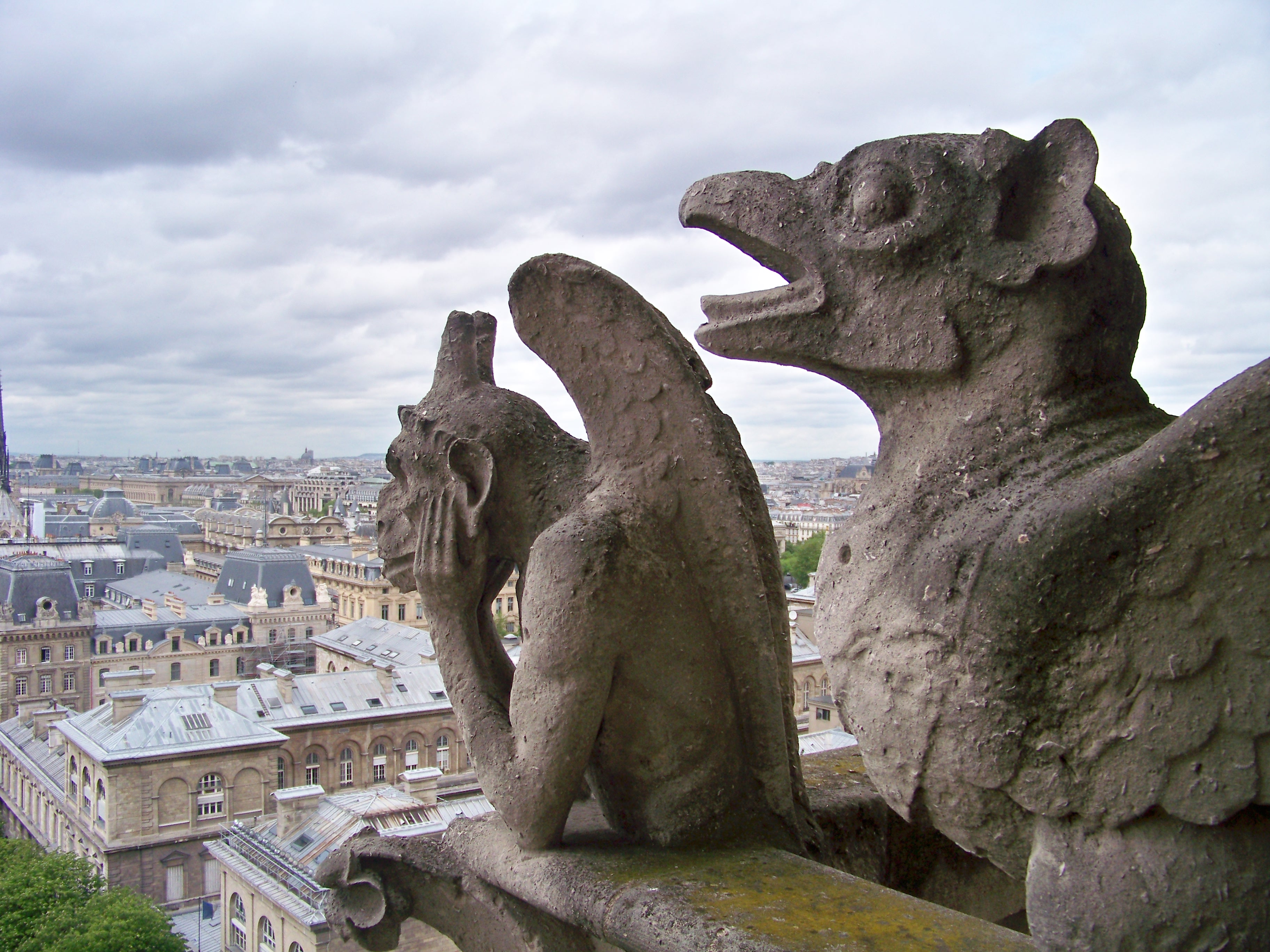 May, 2012. Notre Dame Cathedral